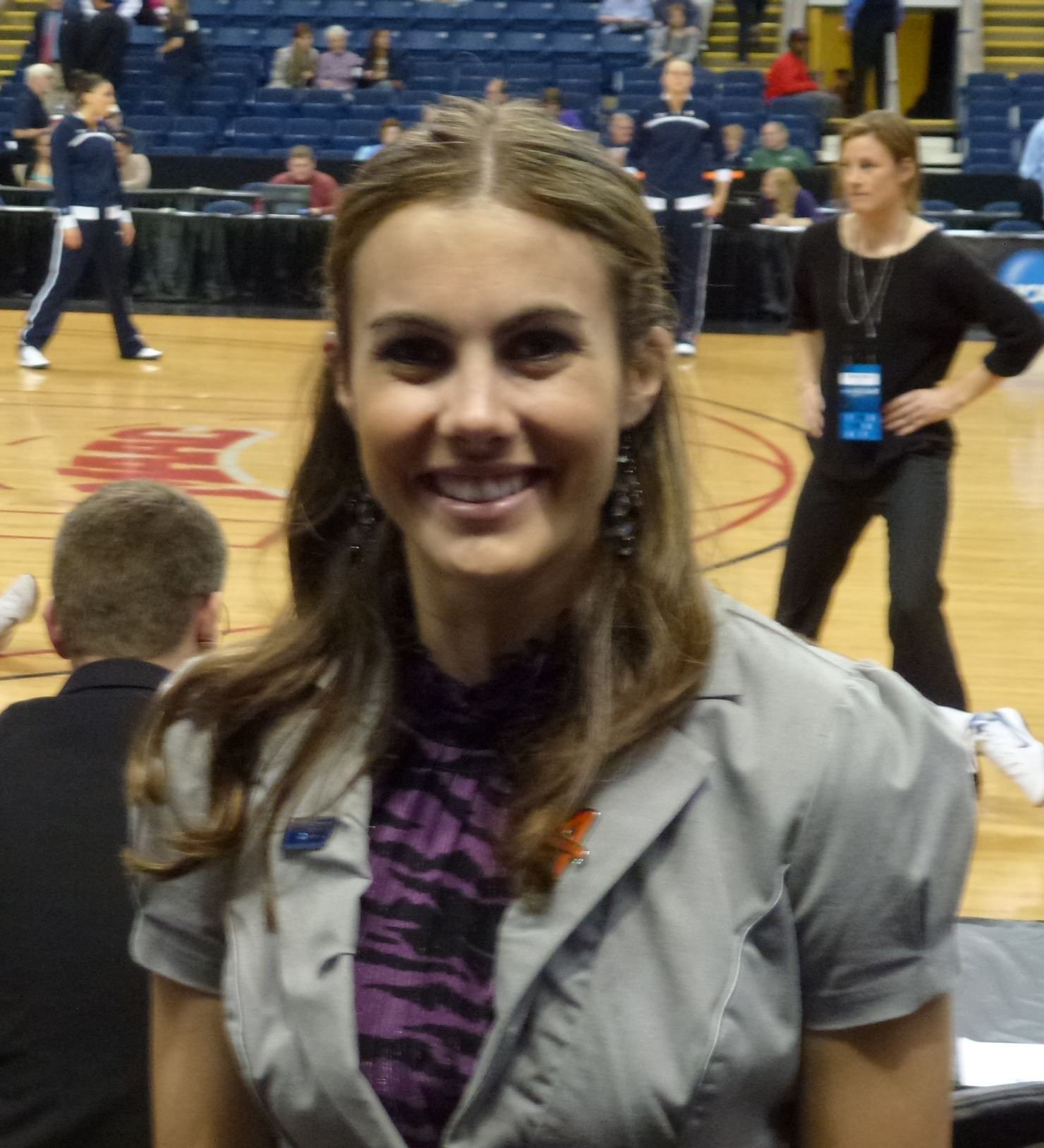 Shalee Lehning assistant coach Kansas State Wildcats. Former star player for the Wildcats. Photo taken prior to second round of NCAA tournament in a game between UConn and KState